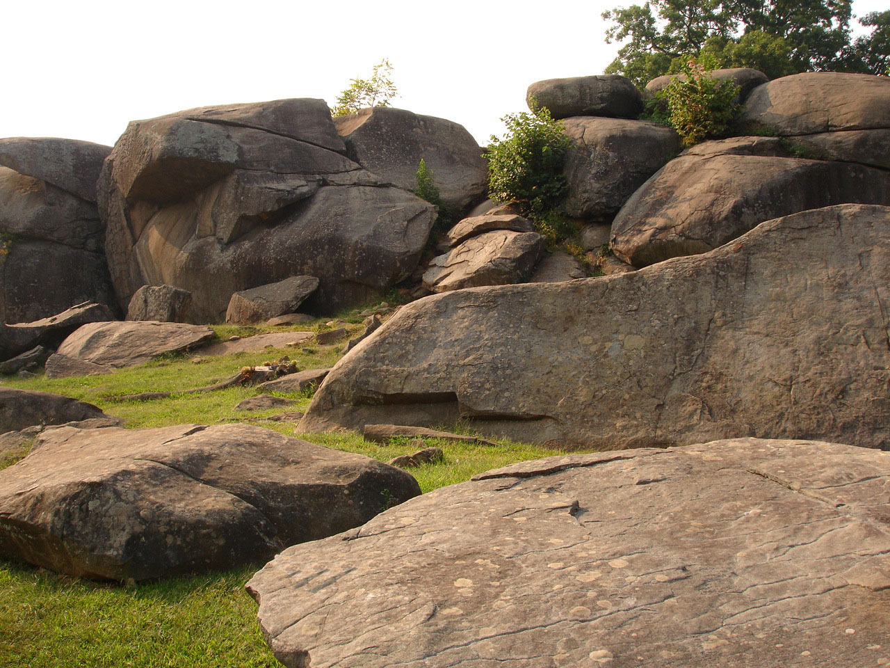 Photo of Devil's Den, Gettysburg National Military Park, 2005. Taken by Hal Jespersen.